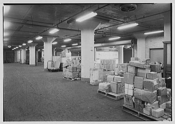 Title: E.R. Squibb & Son, Northern Blvd., Long Island City. Abstract/medium: Gottscho-Schleisner Collection (Library of Congress) Physical description: 1 negative